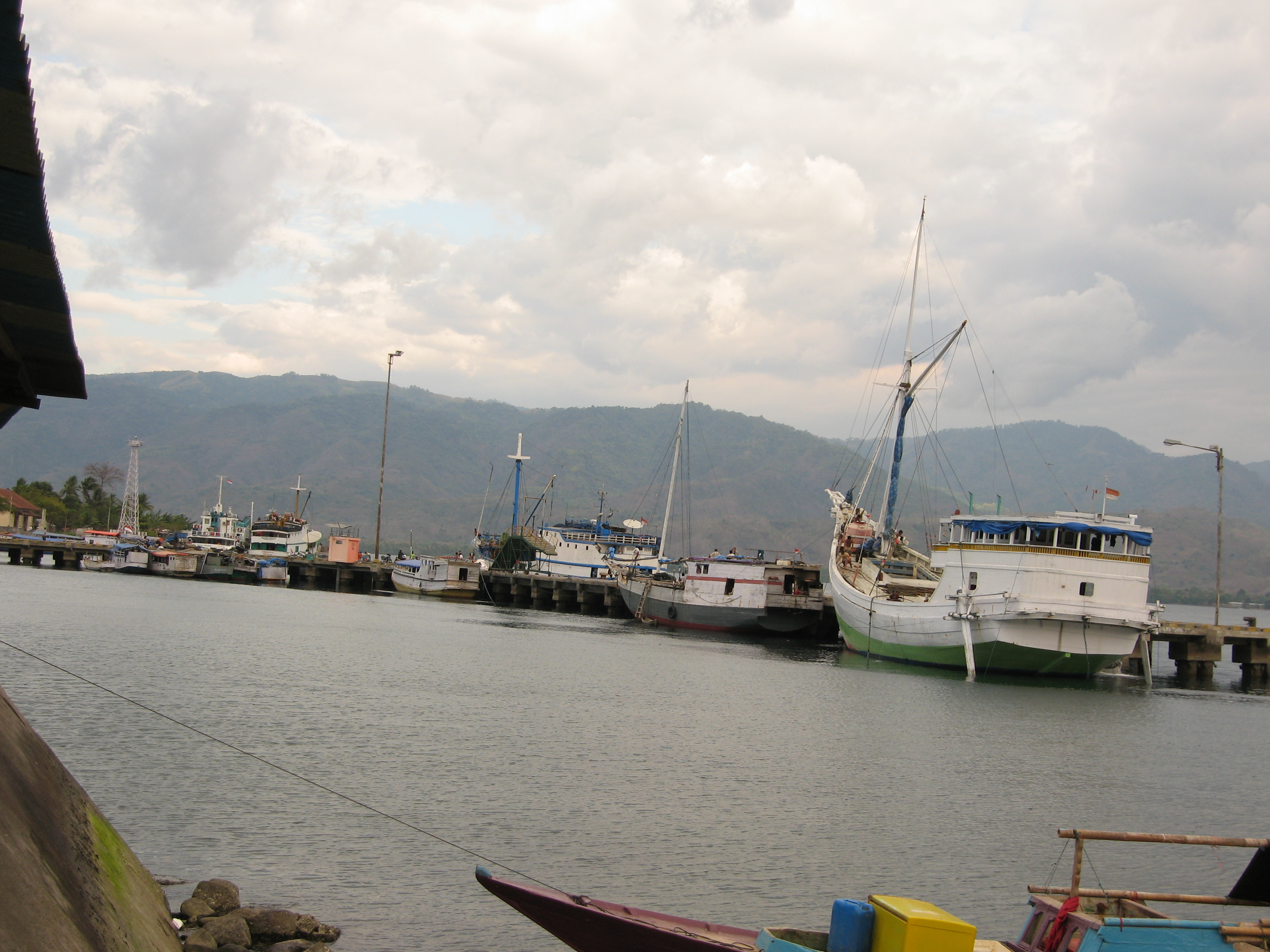 Traditional Ships in Port Kalabahi, Alor, NTT